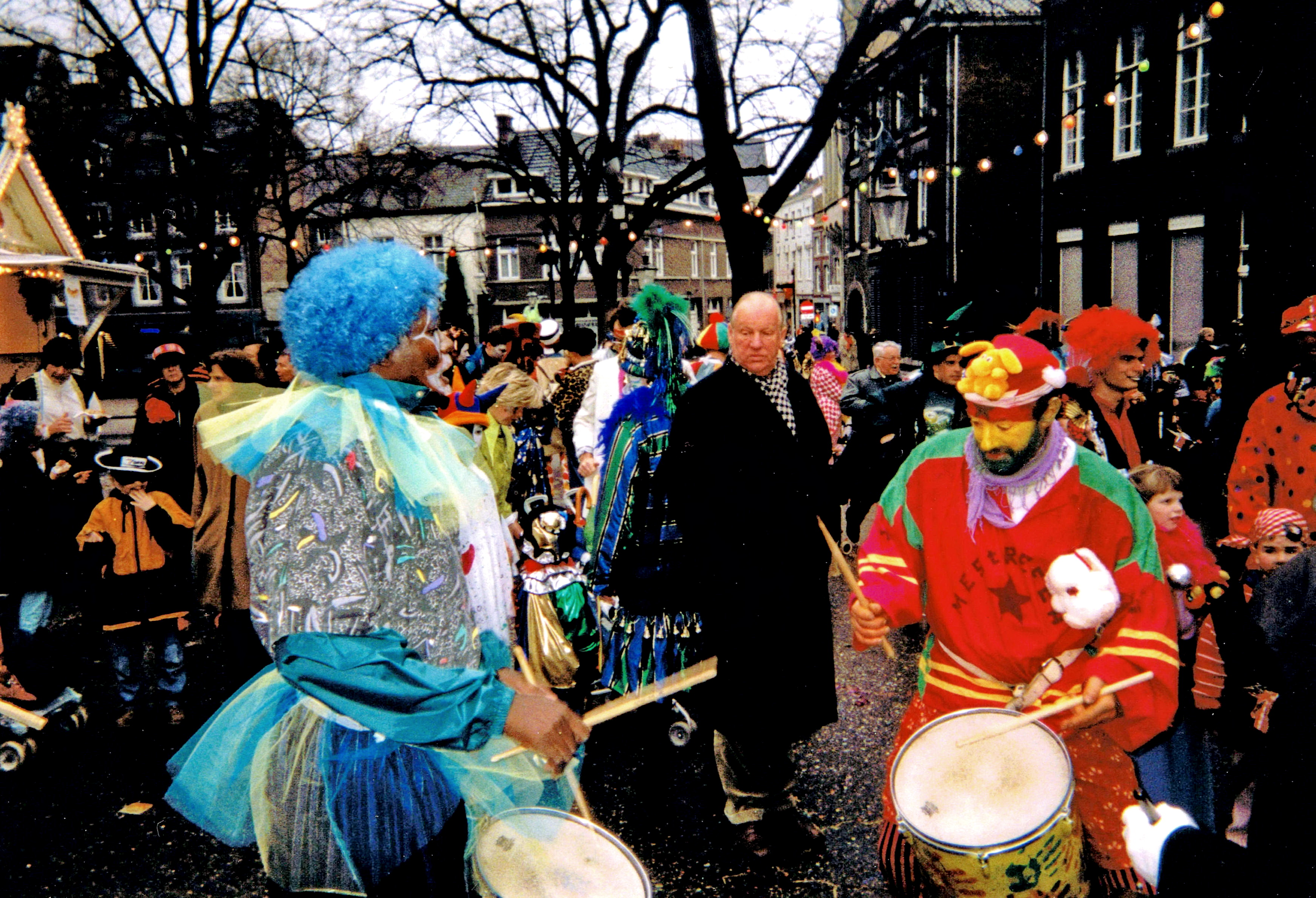 1998-02-22 Maastricht Carnival celebrants at Onze Lieve Vrouweplein.